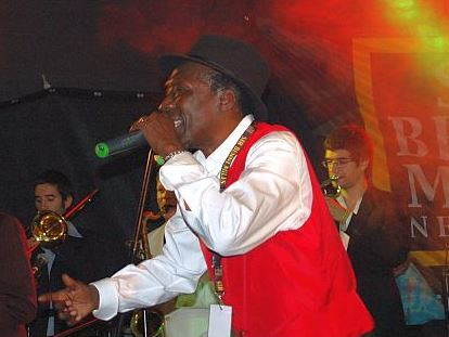 Alton Ellis - from Flickr; cut Datum 11 augusti 2007 Källa Skapare Kat Geb